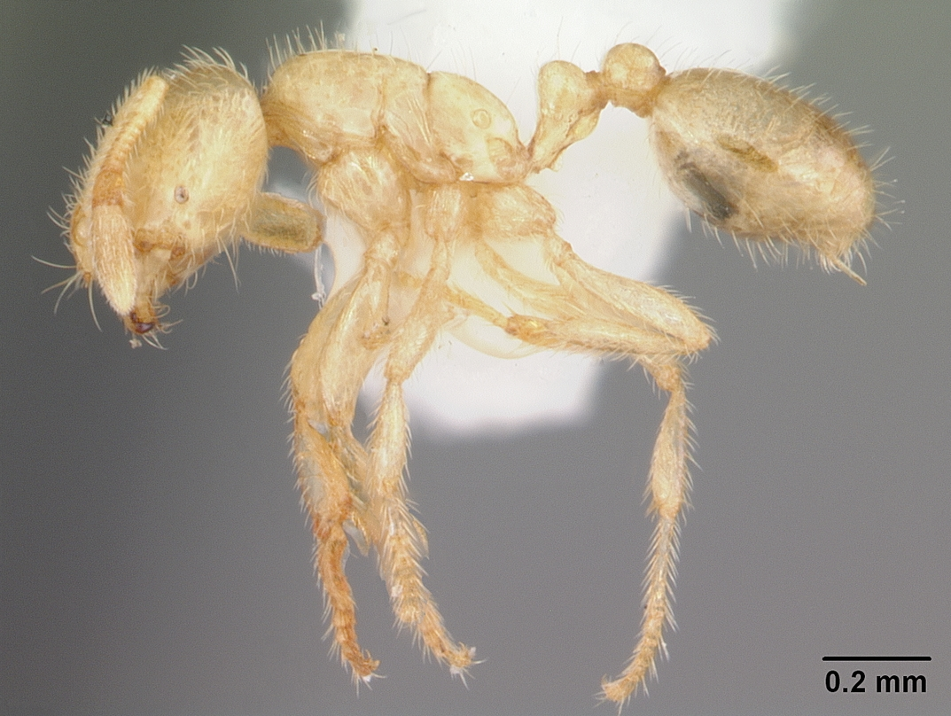 Profile view of ant Solenopsis pergandei specimen casent0104506.